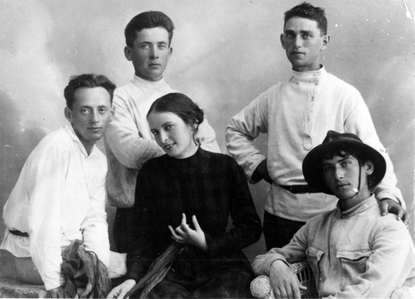 Photograph